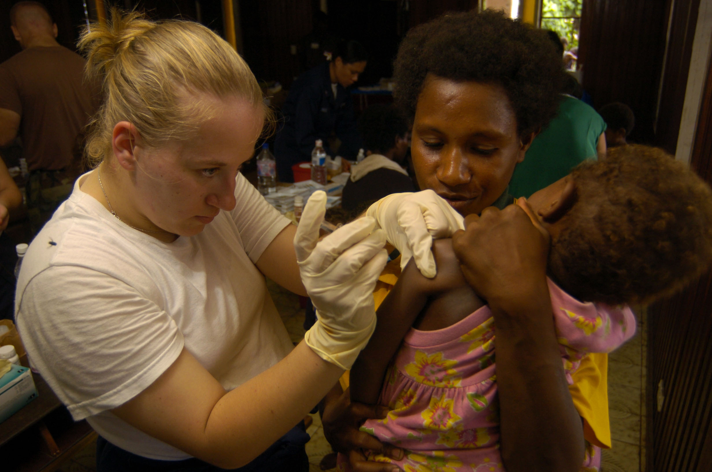 Madang, Papau New Guinea (May 15, 2005) - Hospitalman Mary Lewis, of Freemont, Mich., administers a tetanus shot to a child and her mother. Medical personnel assigned to the Military Sealift Command (MSC) hospital ship USNS Mercy (T-AH 19) and MSC combat stores ship USNS Niagara Falls (T-ASF 3) provide health care and community relations (COMREL) to the village of Madang. Niagara Falls is currently sailing off the Northeastern coast of Madang where a volcano erupted earlier this year. Mercy is en route to its homeport of San Diego after taking part in Operation Unified Assistance in support of the tsunami and earthquake that caused devastation in Indonesia. U.S. Navy photo by Photographer's Mate 3rd Class Lamel J. Hinton (RELEASED)